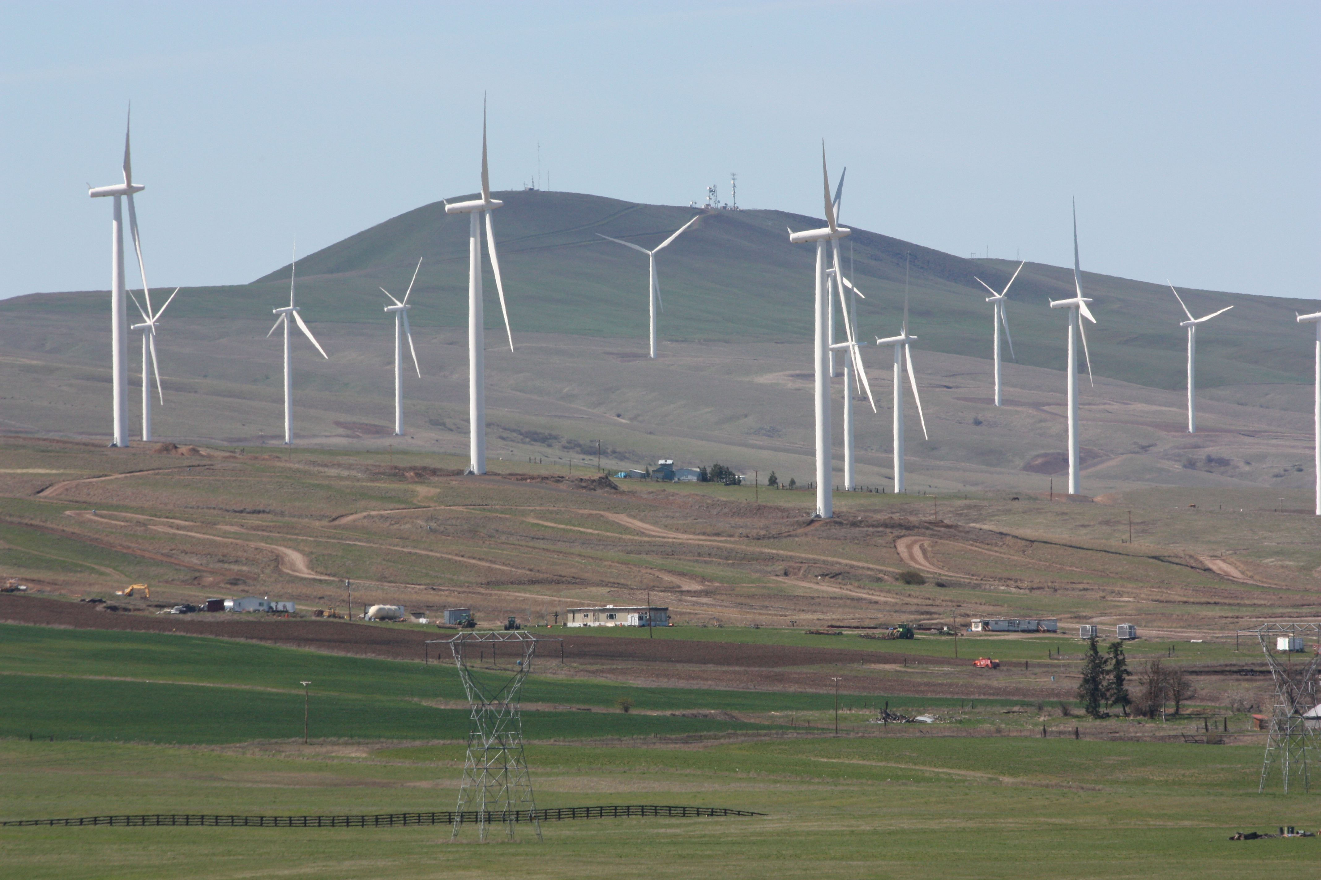 Wind farm on Columbia Hills, Windy Flats 190 MW EOZ2007-01, Cannon Power Group; high-voltage transmission tower Viewpoint location: Viewpoint, U.S. Route 97 in Washington Viewpoint elevation: 527 meter (1729 ft) View direction: 222° Location source: Google Earth Location Datum: WGS84